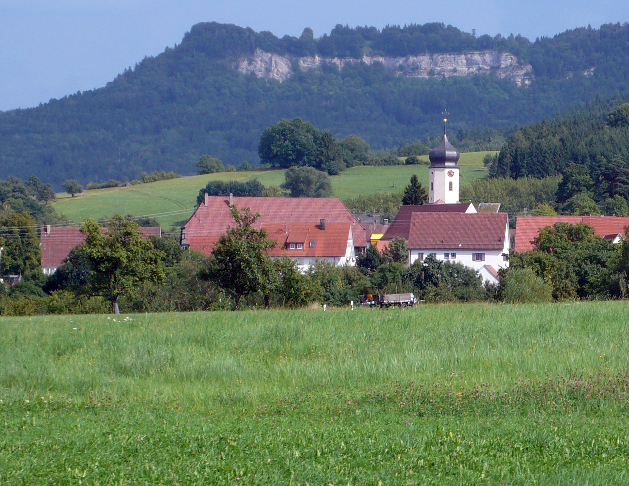 Roßwangen (Balingen) Baden-Württemberg (Germany)